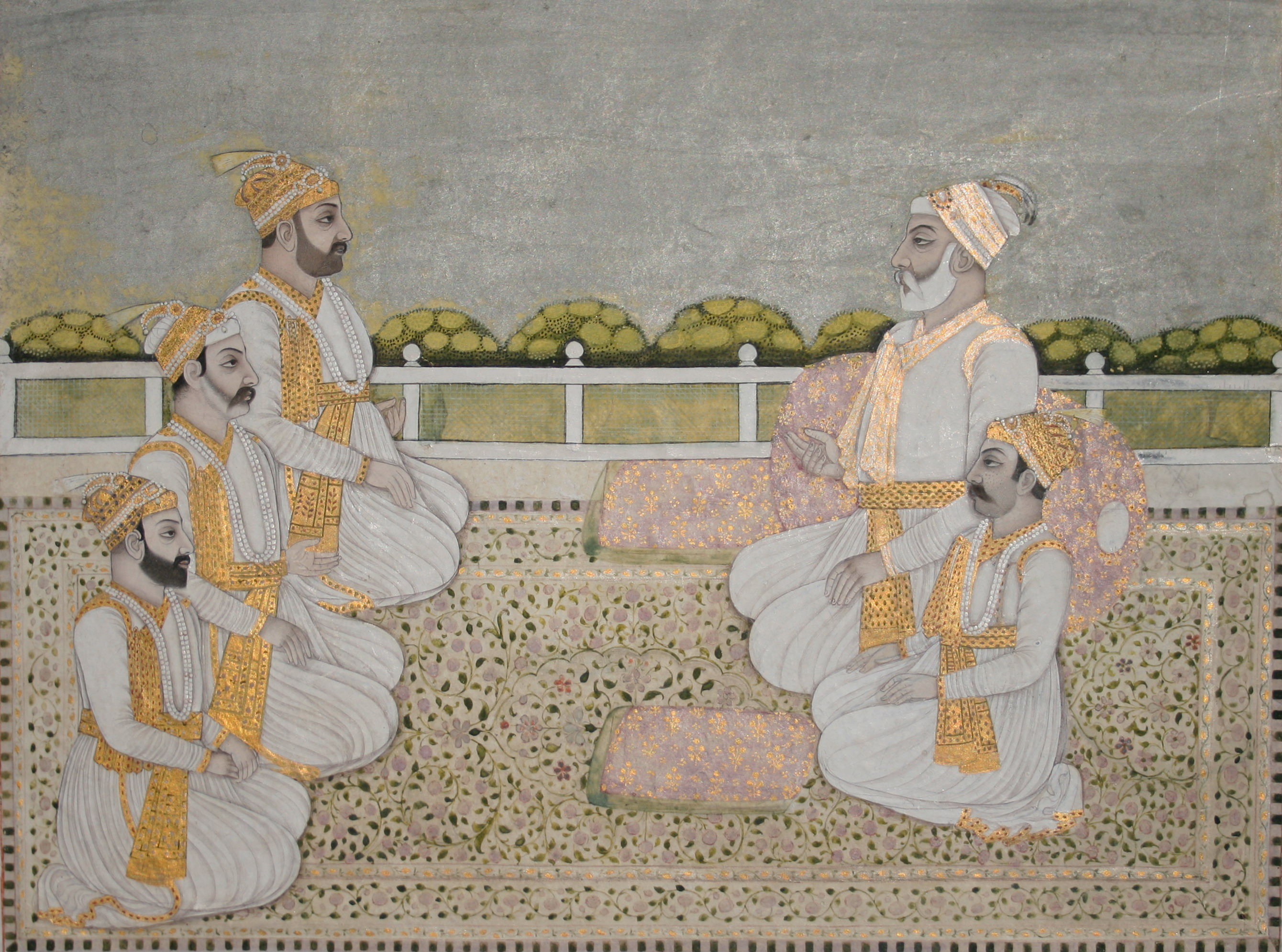 Nawab 'Alivardi Khan with his grandson Siraj-Ud-Daulah sit opposite his nephew Sayyid Ahmad Khan (Saulat Jang) and two nobles also probably relatives. Murshidabad, circa 1756